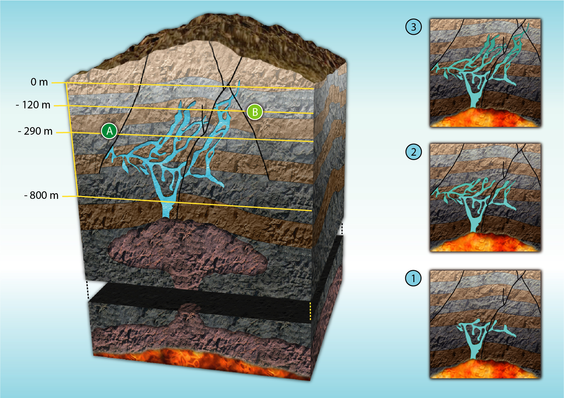 Idealized block diagram with the ore fluids exsolved from the magmatic chamber at Naica mine (Mexico). The topography corresponds to a moment after the ore formation and erosion of the Naica mountain. Based on Garcia-Ruiz et al.: J. M. García-Ruiz, R. Villasuso, C. Ayora, A. Canals & F. Otálora (2007), Formation of natural gypsum megacrystals in Naica, Mexico. Geology, April 2007, Vol. 35, No. 4, pp. 327-330 Indications in the image: A. Position of Crystals Cave B. Position of Swords Cave 1. Early stage 2. Intermediate stage 3. Late stage, the morphology match the known ore deposit Infographic by Albert Vila and Andreu Módenes with scientific monitoring Àngels Sabaté Canals, geologist at University of Barcelona (UB)